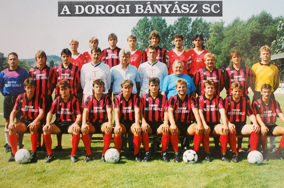 It was a very strong hopeful group. They were very close to return in the first class.